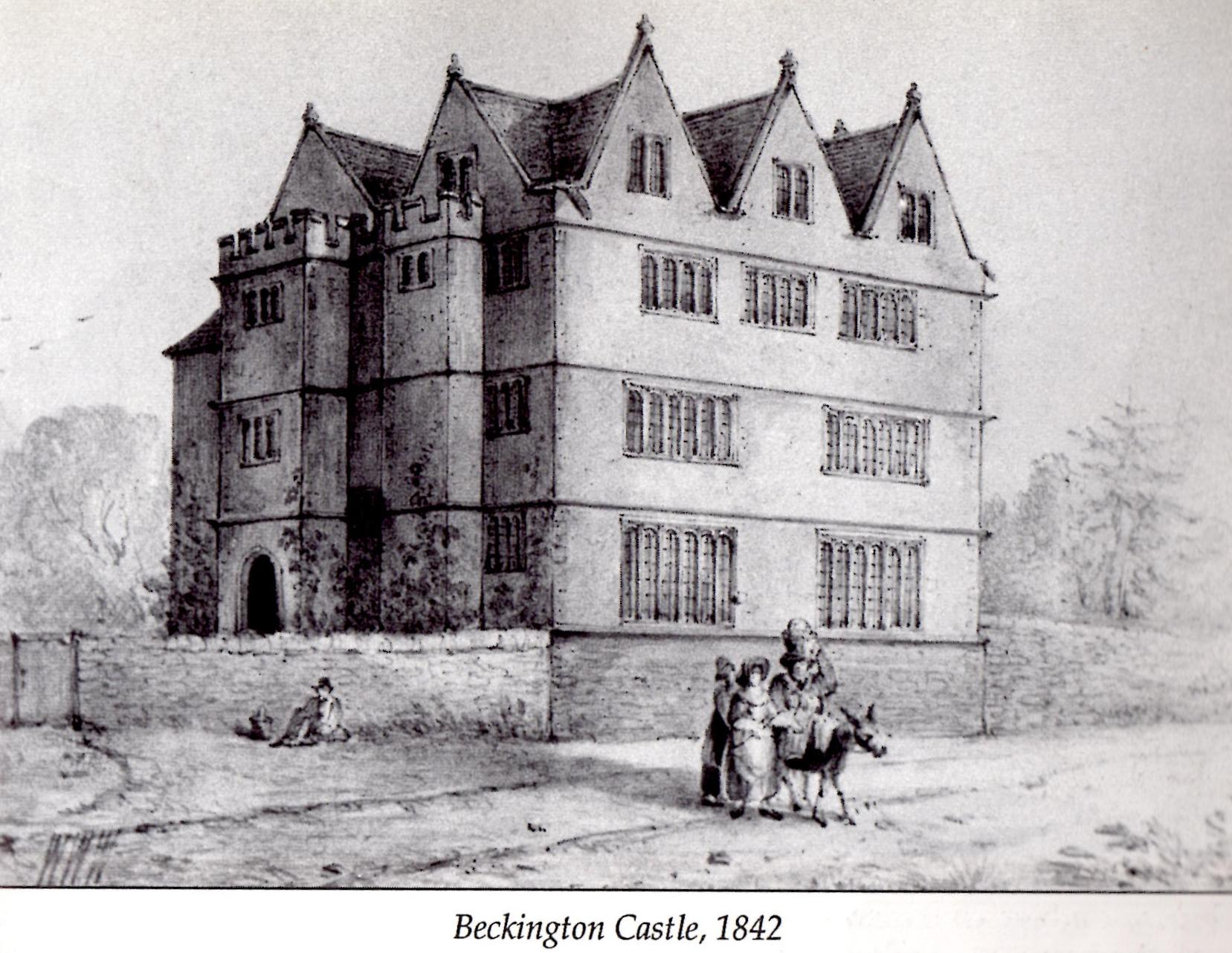 A scan of a 1842 painting of Beckington Castle in Somerset, England